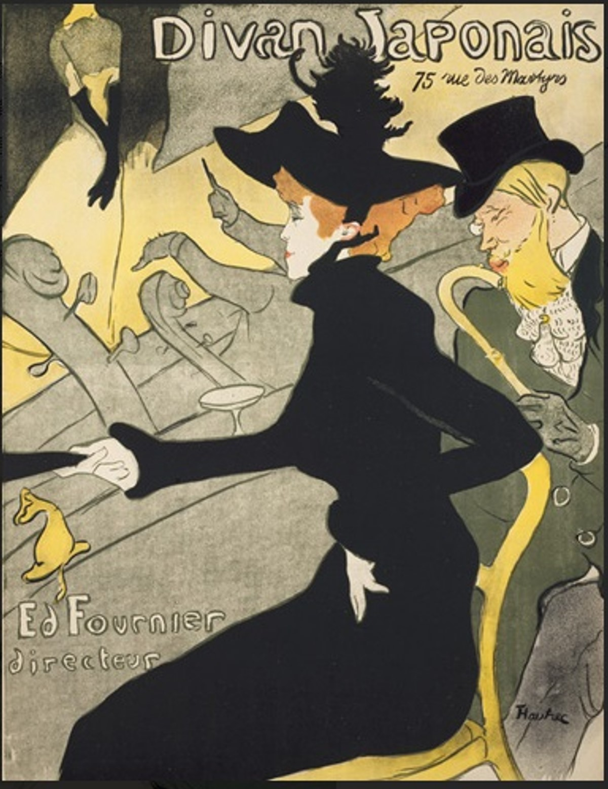 Poster Toulouse-Lautrec